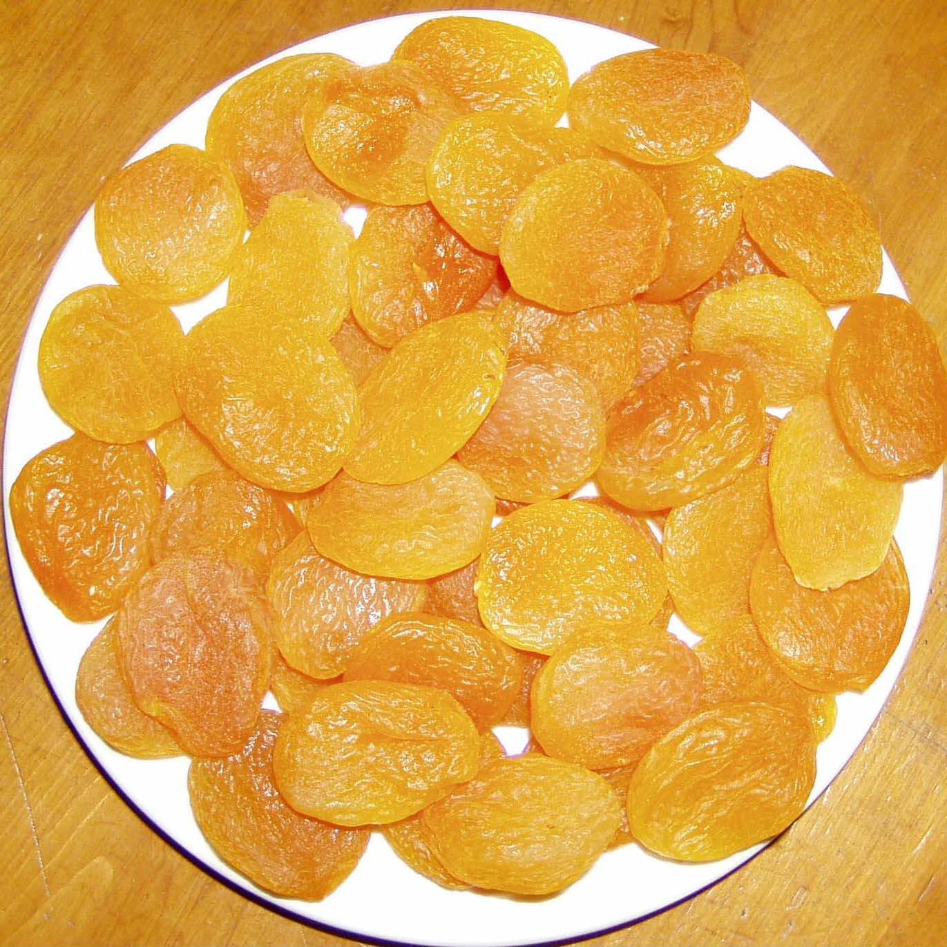 Dried apricots.